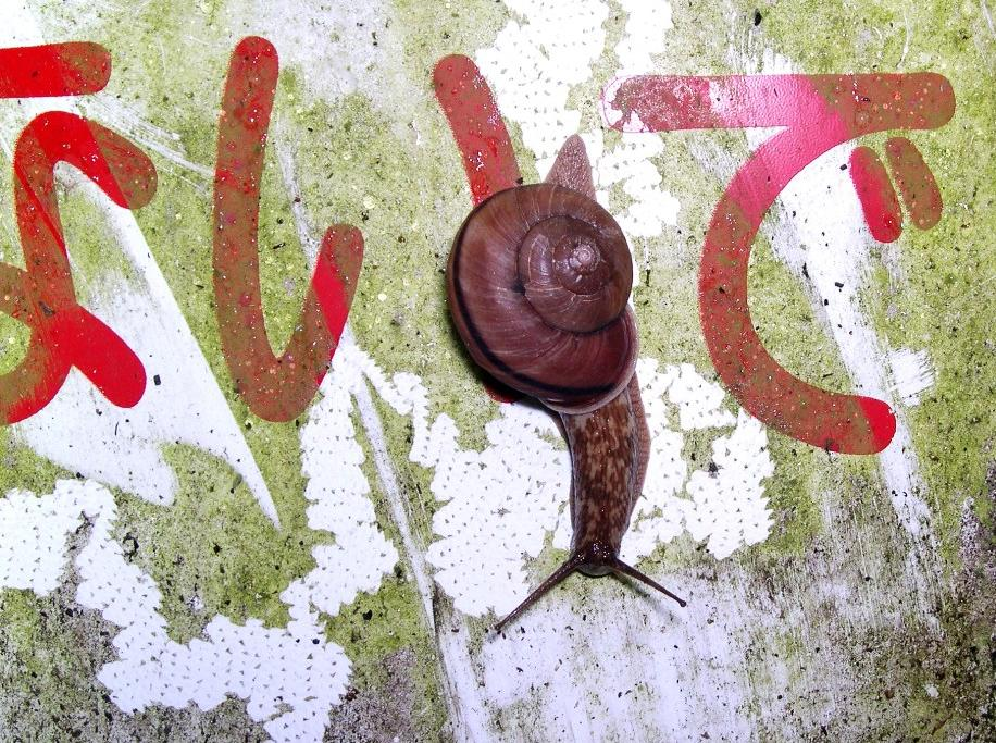 A left-handed snail Euhadra quaesita' (Deshayes, 1850) (Bradybaenidae: Pulmonata) and its grazing scars. Mitaka, Tokyo, Japan. ヒダリマキマイマイとその食痕。東京三鷹市。